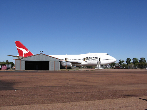 City of Bunbury